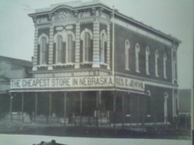 The building was commissioned by founding resident Colonel Harbine in 1875. Jenkins Dry Goods was soon established in 1879, and continued to operate as such for several decades. This is the most intact of the first generation buildings in downtown Fairbury, having retained the original Italianate features. The second floor was later used as a hall for the Knights of Pythias. Other original features include the beadboard ceiling beneath the acoustic ceiling, second level trim work, and soft brick and sandstone facade. Note the false front building to the left.